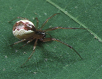 female Anelosimus crassipes from Okinawa.